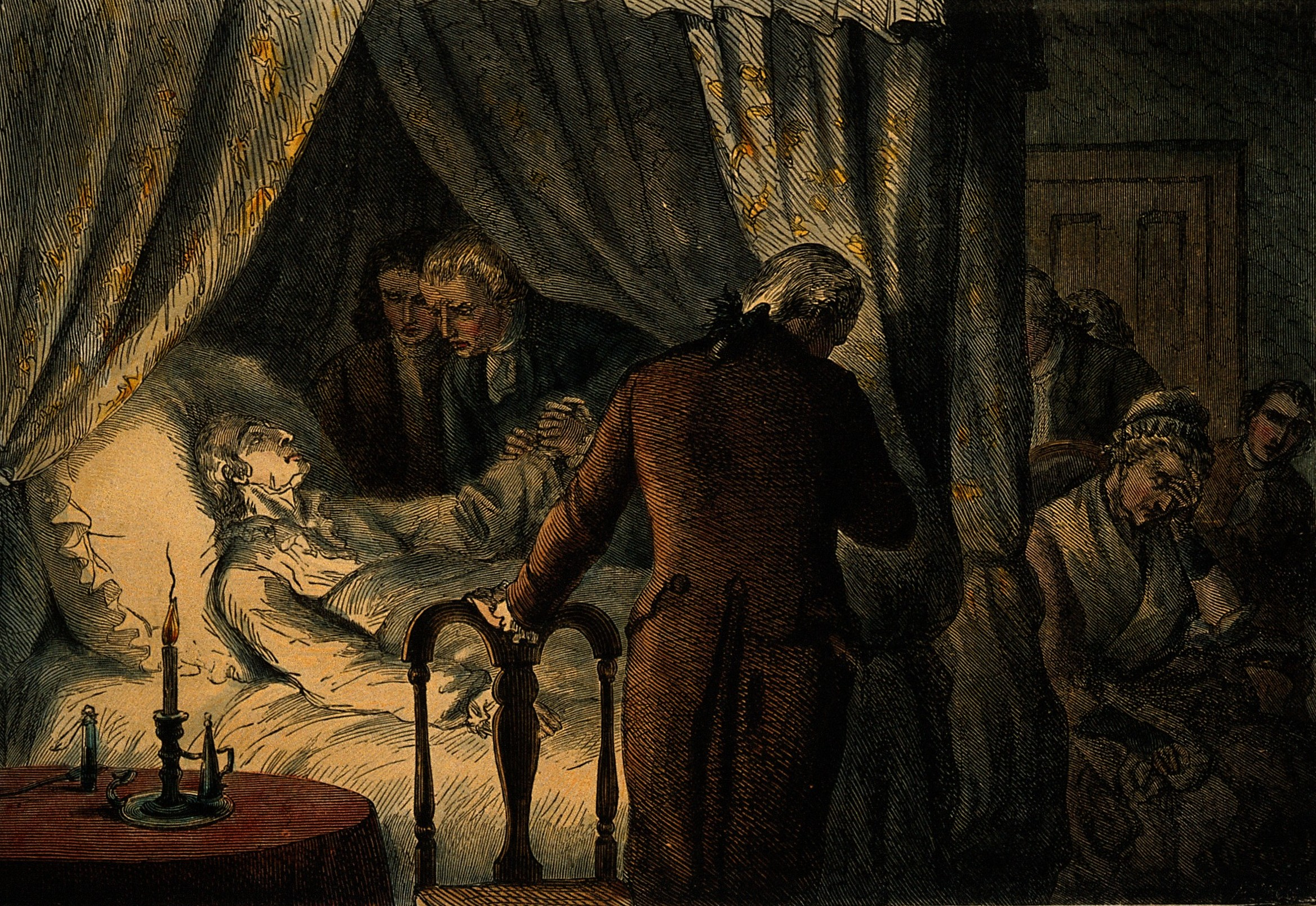 George Washington on his deathbed. Coloured wood engraving. Iconographic Collections Keywords: Martha Washington; George Washington